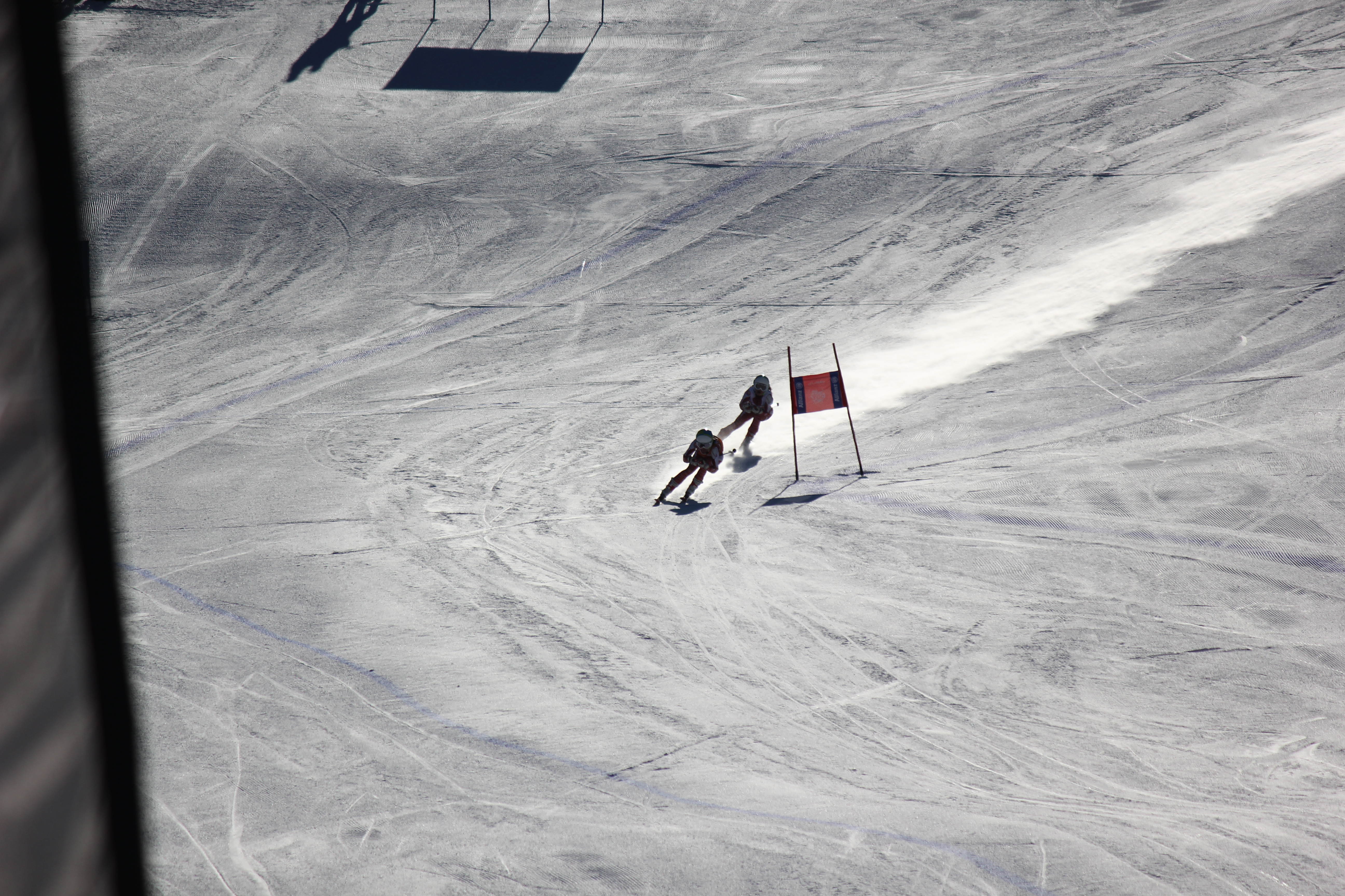 2013 IPC Alpine World Championships at La Molina in Spain. Day 1. Downhill final. Skier Henrieta Fakasova and guide Natalia Subtrova. Henrieta Fakasova is B3 from Slovakia.